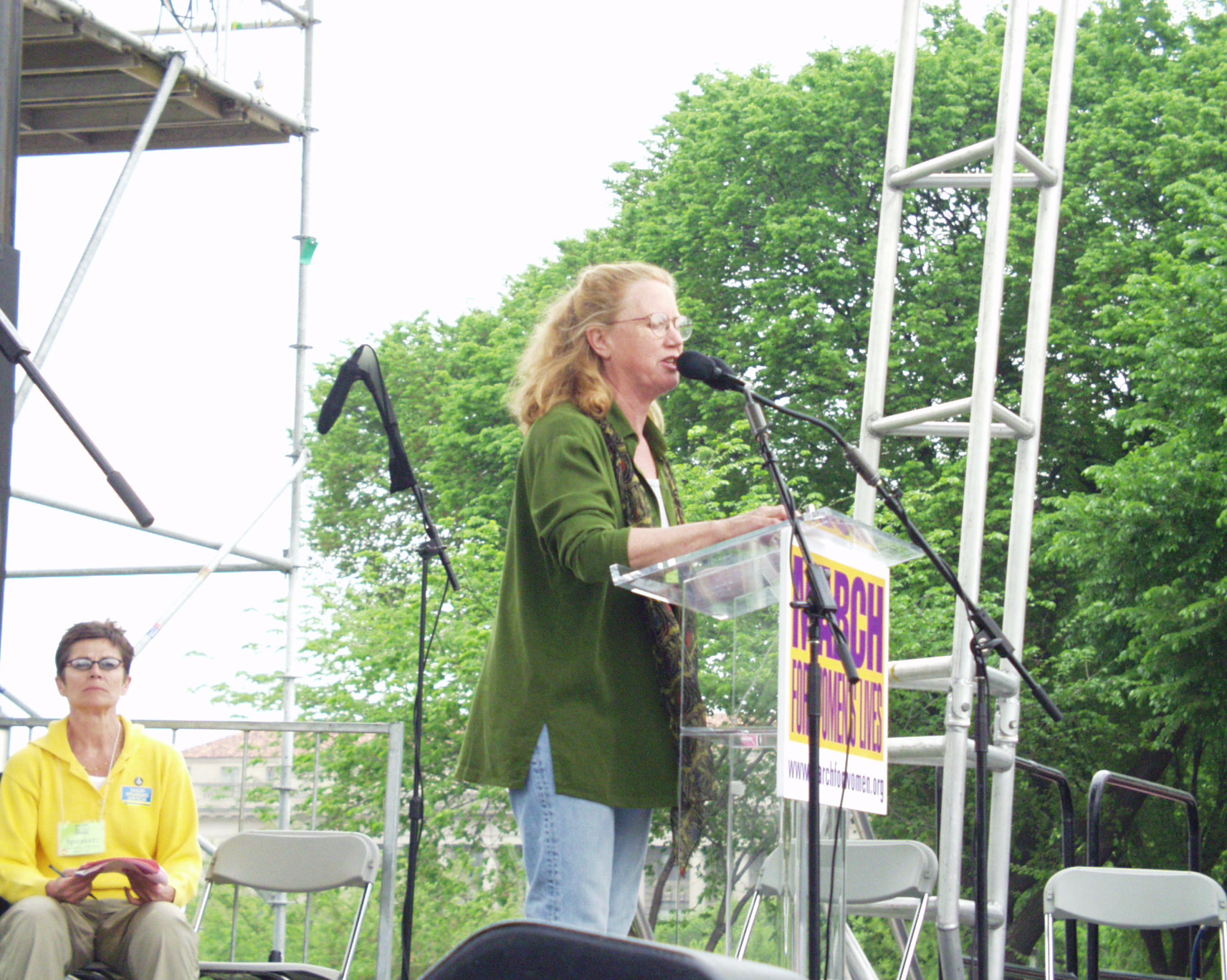 In 2004 Holly Near performed at the March For Women's Lives in Washington DC. Photograph by Patty Mooney of San Diego, California